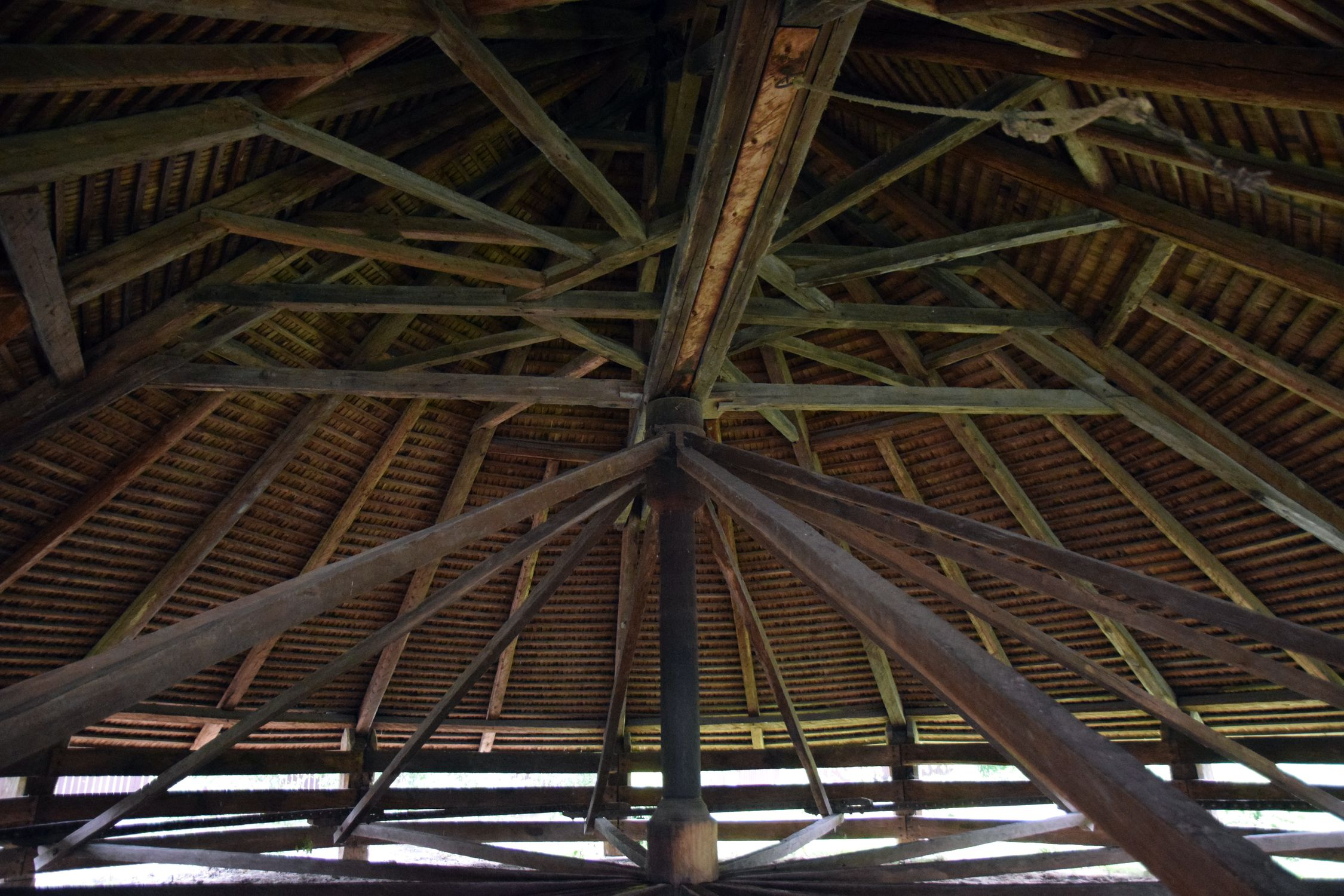 Tarpa, horse mill